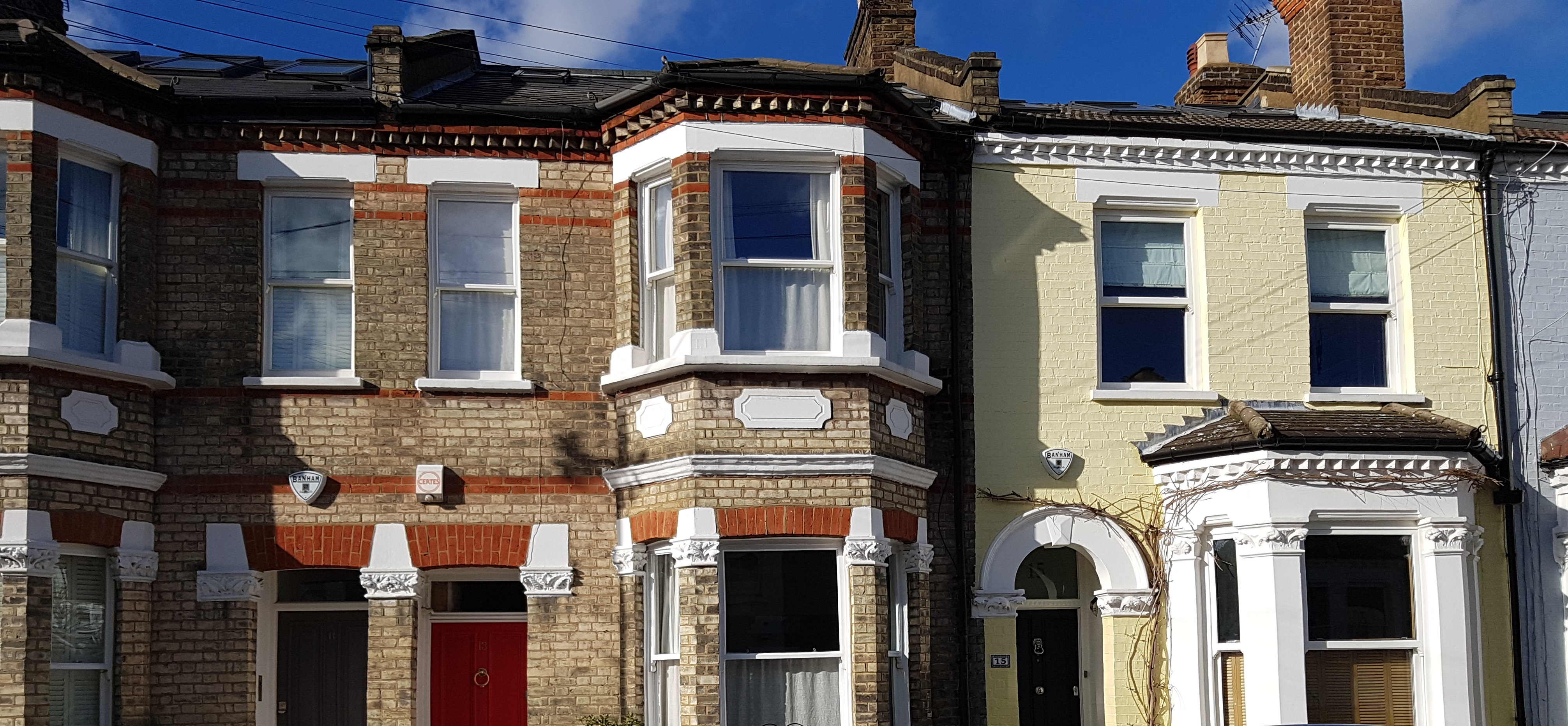 Housing